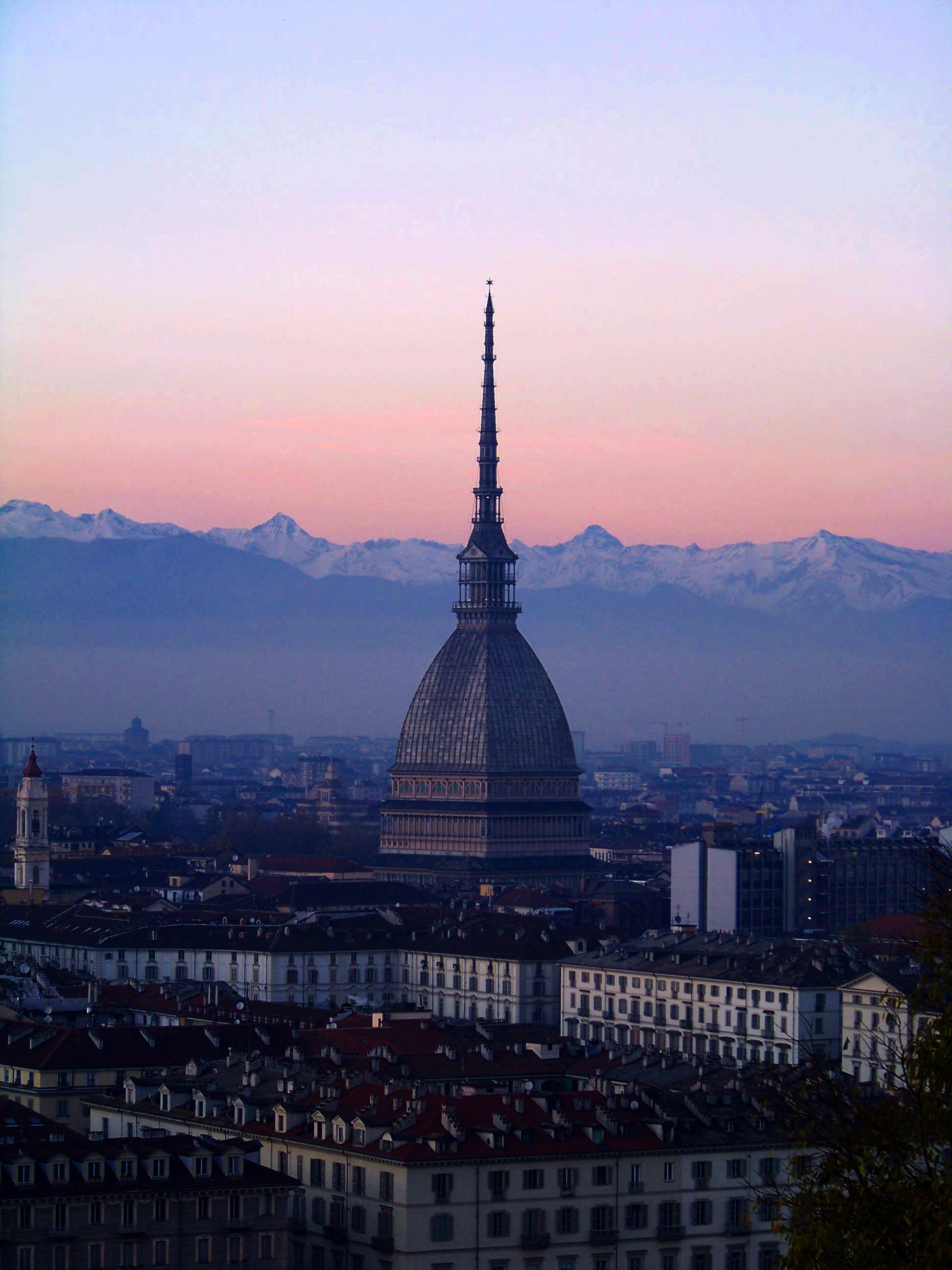 Mole Antonelliana, Turin, Italy